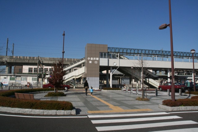 East Exit of Koganei Station